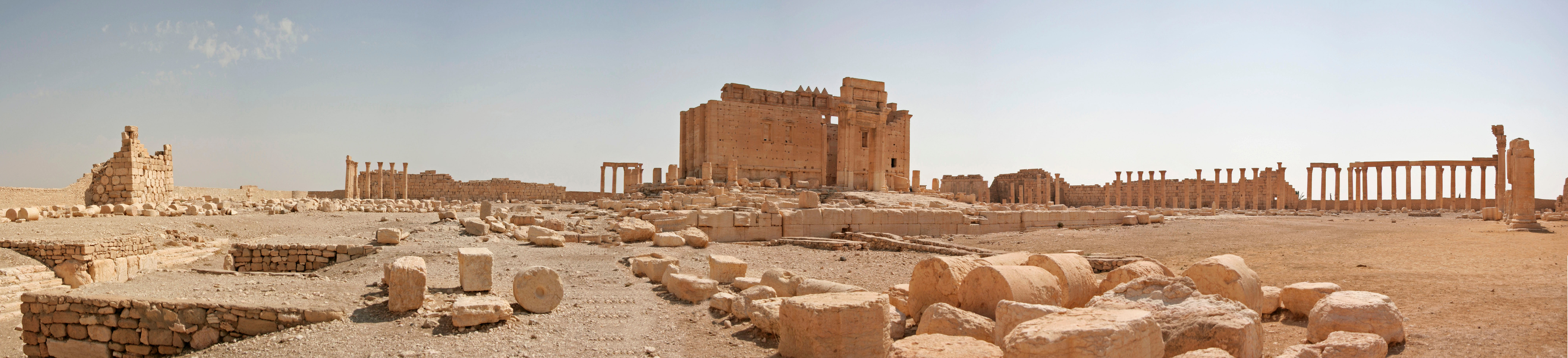 Panoramic view of the Temple of Bel, Palmyra, including its front court